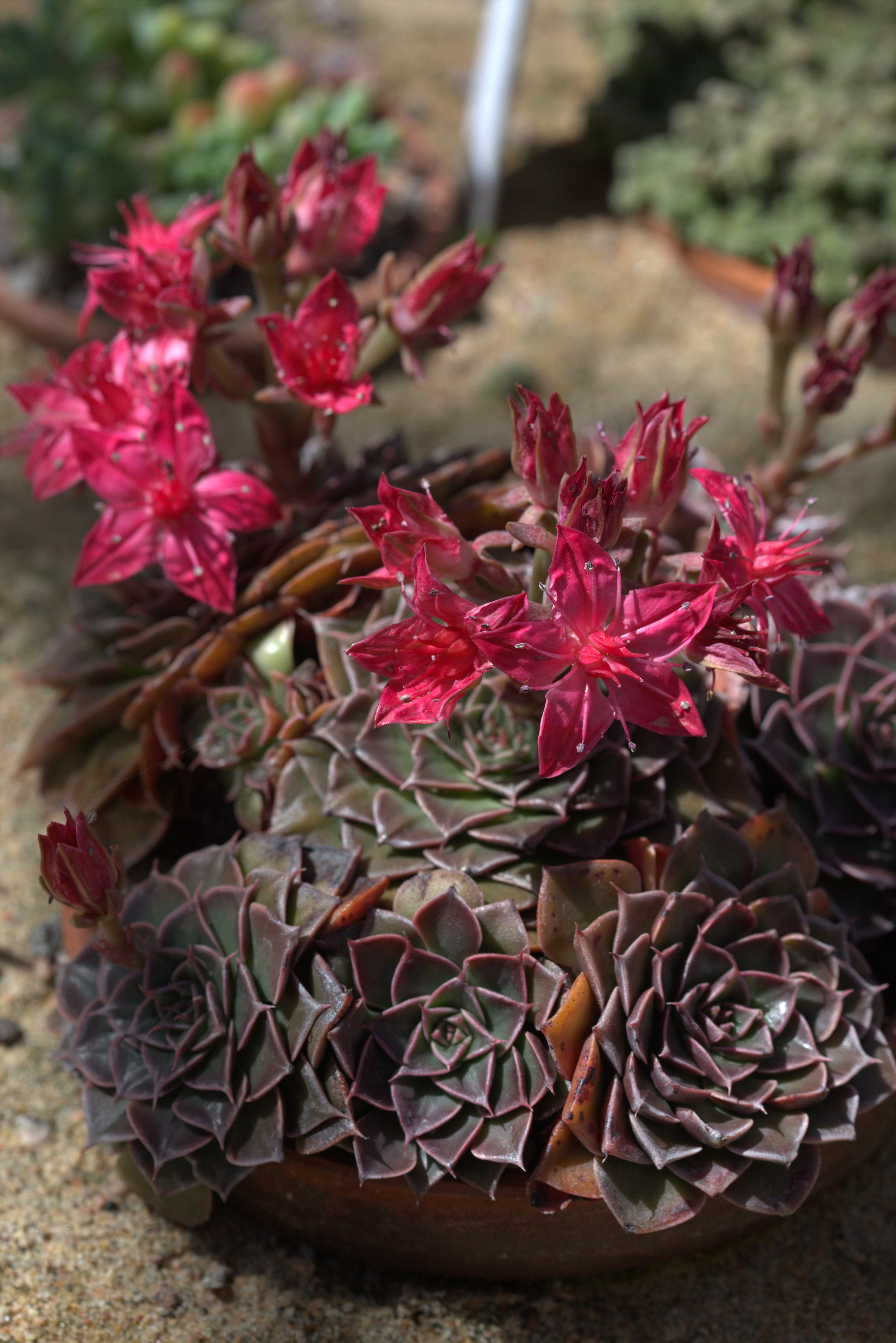 Graptopetalum bellum in Gothenburg Botanical Garden 2015. Plant id: 2002-2999 p G.